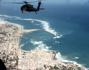 Michael Durant's helicopter (Super64) heading out over Mogadishu on October 3, 1993. Super64 was the second helicopter to crash on the Battle of Mogadishu. Ranger Mike Goodale rode on this helicopter before the battle erupted.